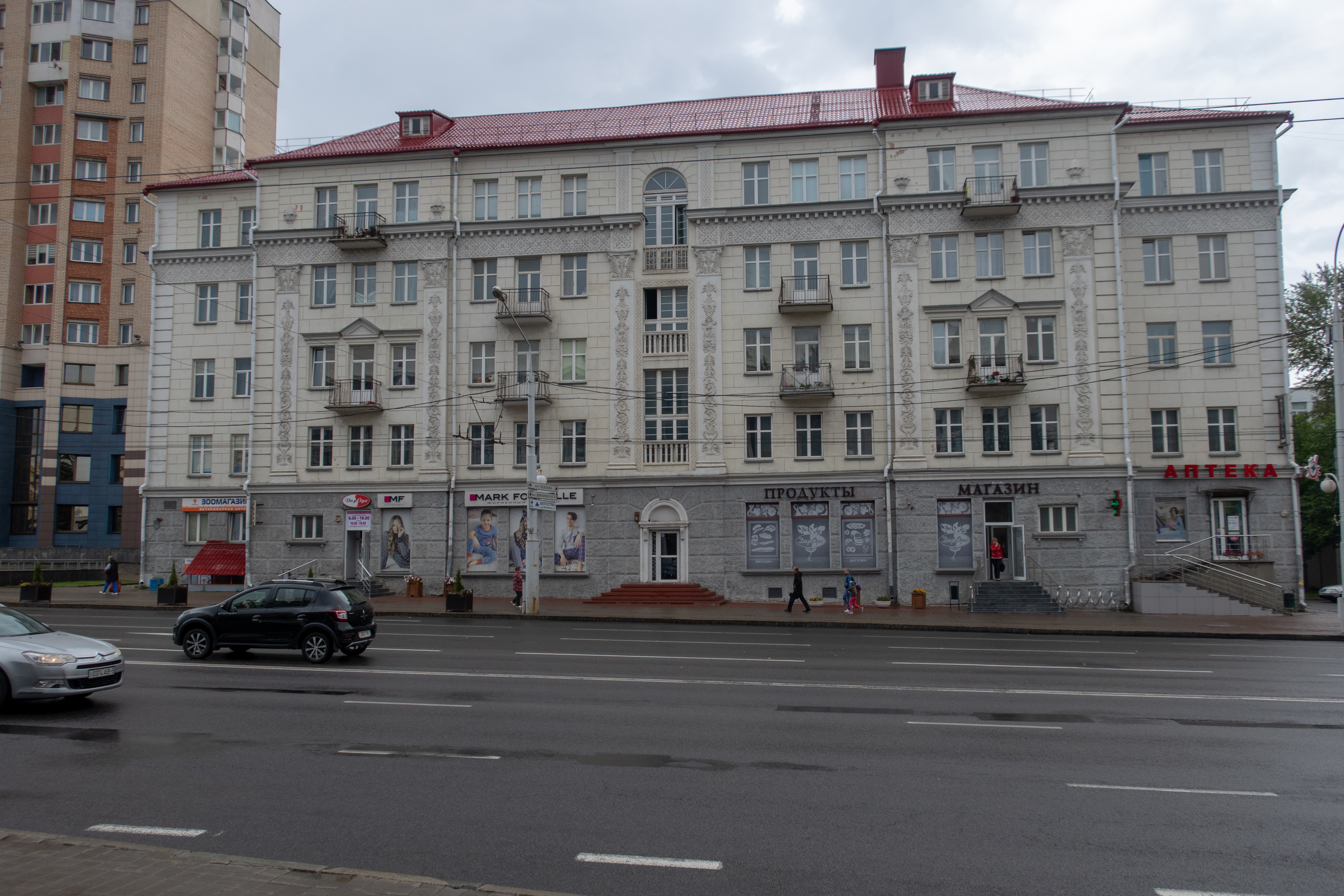 Čkalava street (Minsk, Belarus)